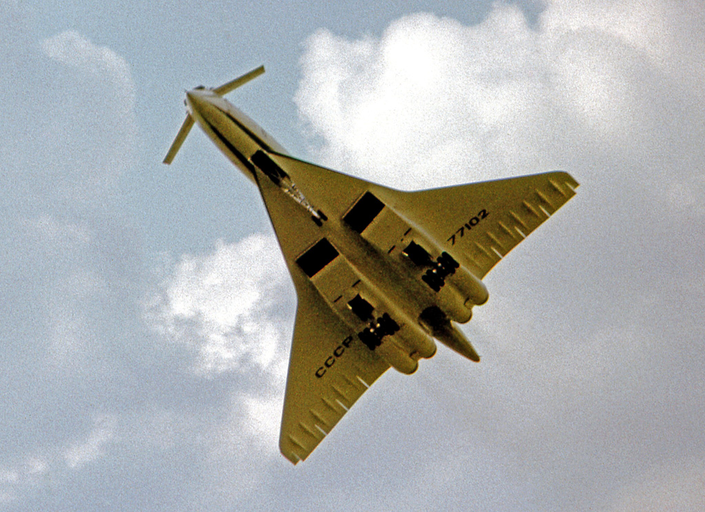 Tupolev Tu-144S CCCP-77102 displaying at the 1973 Paris Air Show at Le Bourget Airport